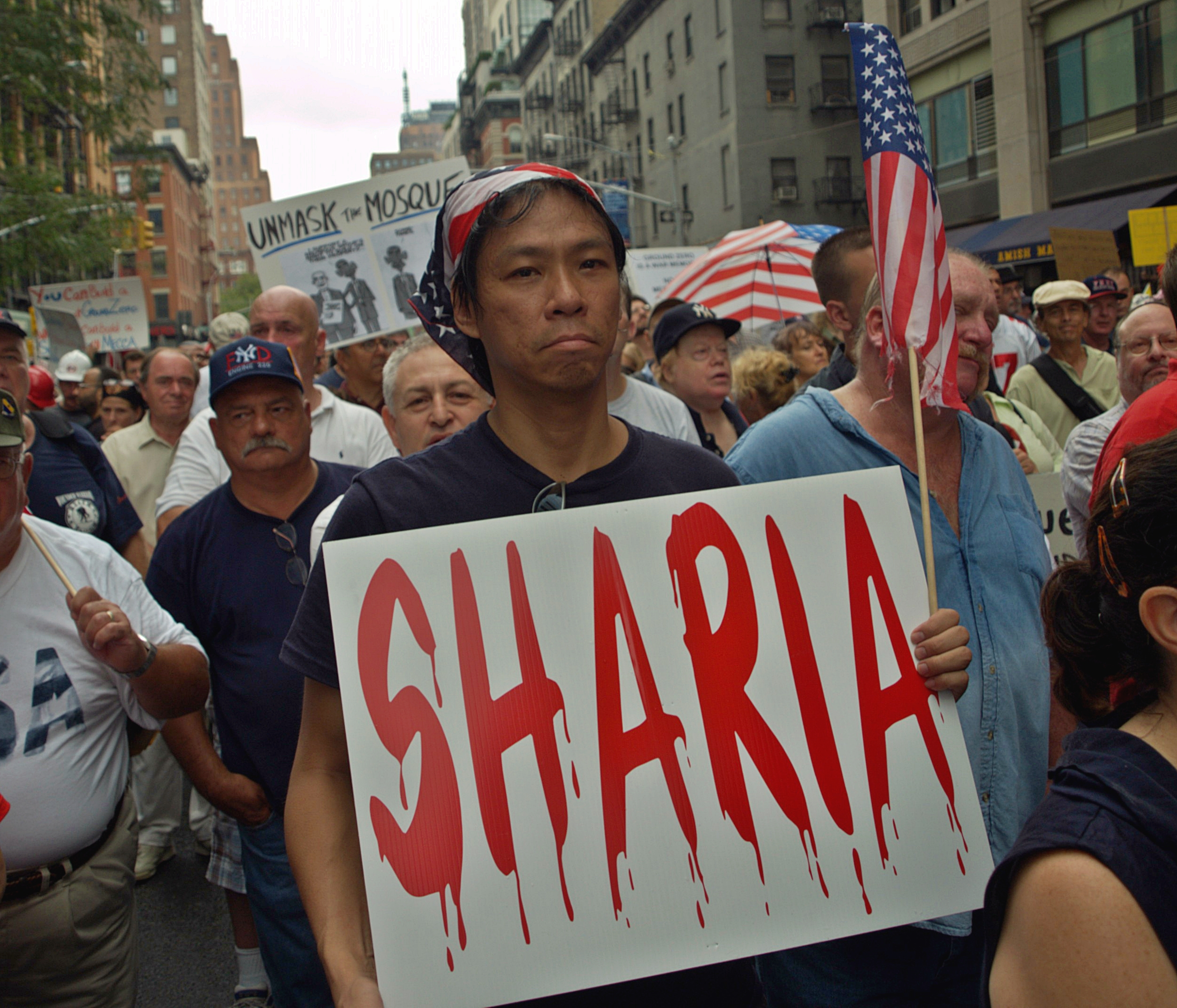 Photos of the Sunday, August 22, 2010 Park51 (Cordoba House) protest.